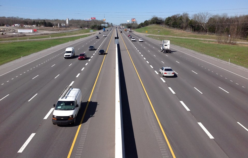 Interstate 40 @ Beckwith